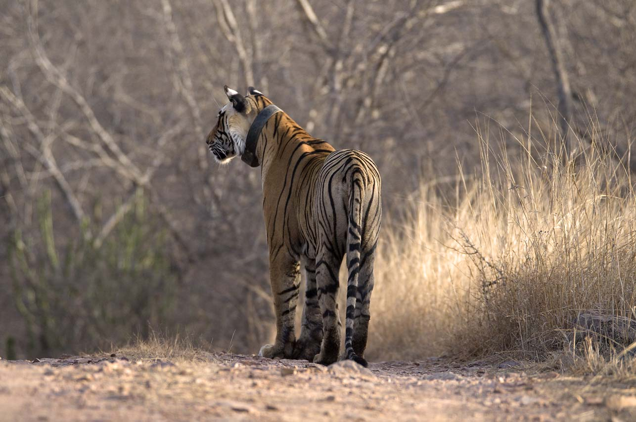 Tiger safari is not for everyone; certainly not for the type %u201CA%u201D persons and for those not willing to rough it out in the jungle. After going through two tiring and tortuous Safaris in the scorching heat of Ranthambhore, we sighted the famous female tiger officially known as T17, but for admirers the %u201CLady of the Lake%u201D on our third try. She is the daughter of the famous %u201CMachhli%u201D. Her territory includes the Rajbagh lake and most of the area covered by tourist Zone 3 and part of Zone 4. Here is one of the first shots taken. Here she stopped in her tracks to consider a sambhar deer. Location, Mandook in Zone3, Ranthambhore.